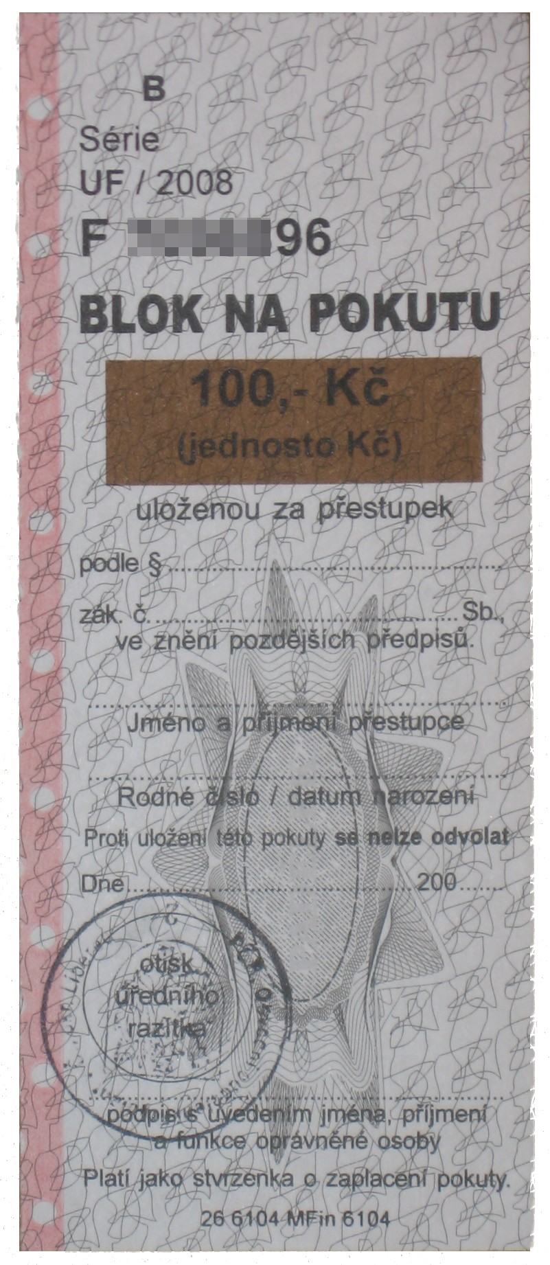 the fine penalty bill of Czech Police 100 Kč ≈ 4.00 € ≈ US$ 5.60